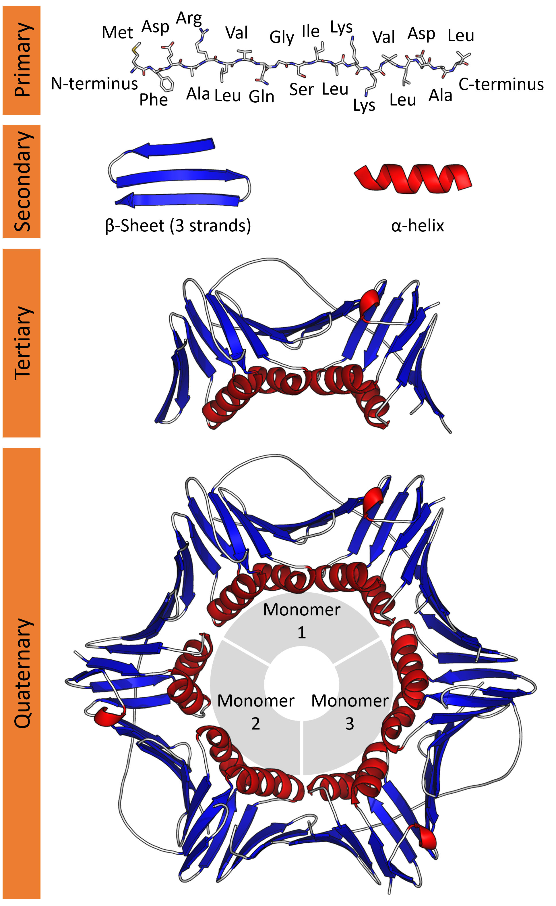 Summary of protein structure (primary, secondary, tertiary, and quaternary) using the example of PCNA. (PDB: 1AXC​)